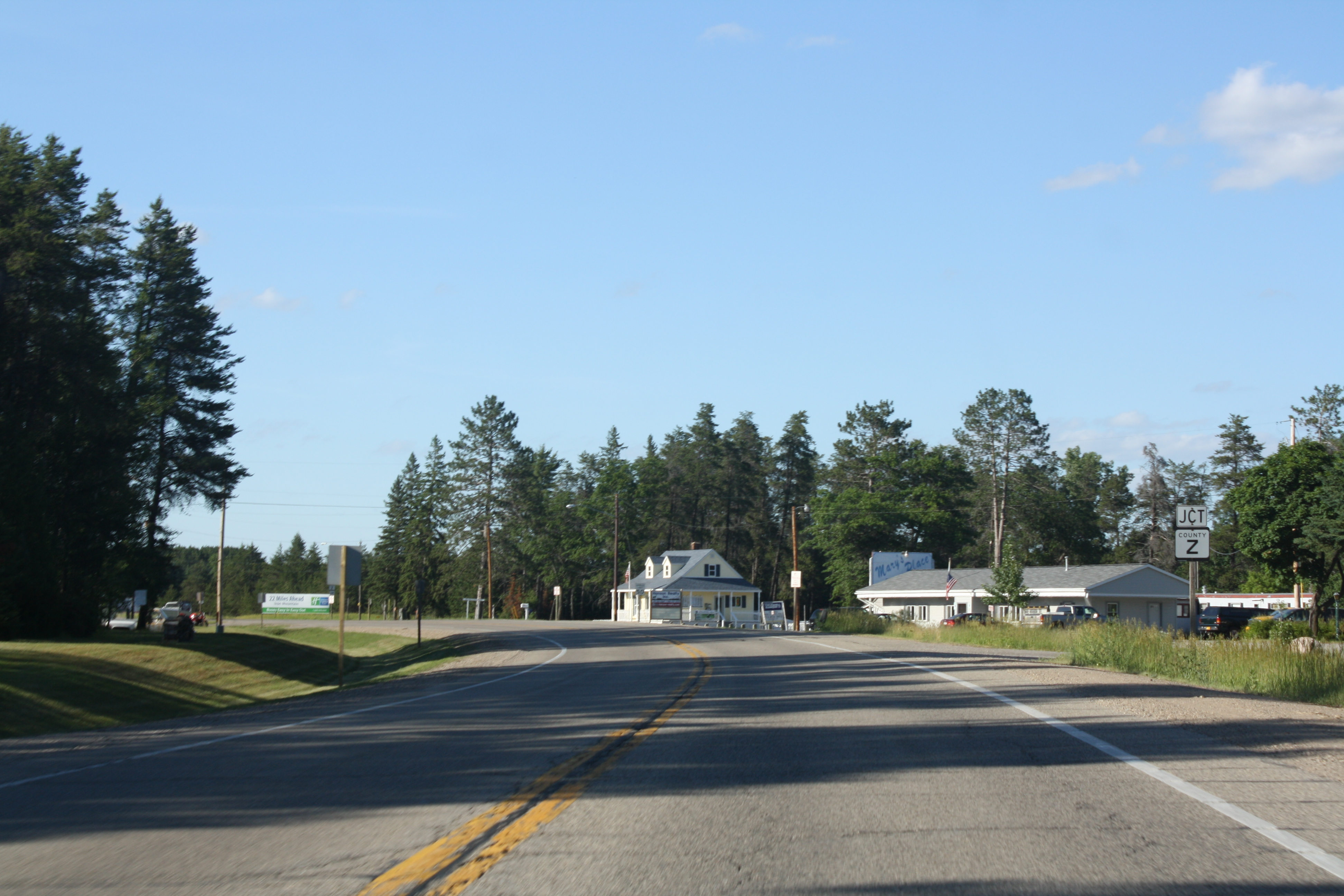 Looking north at downtown Beecher (community), Wisconsin on U.S. Route 141.